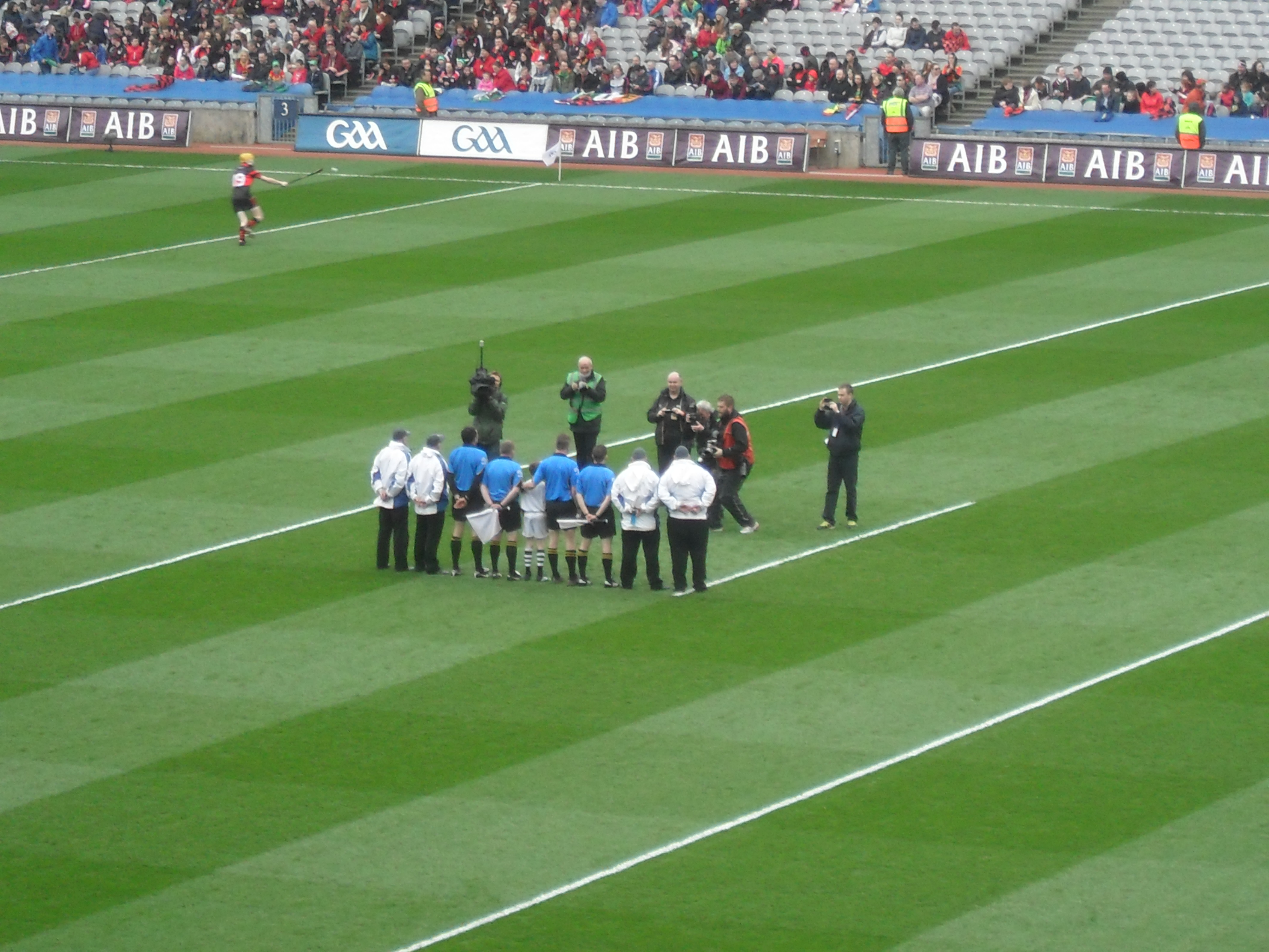 Croke Park referees